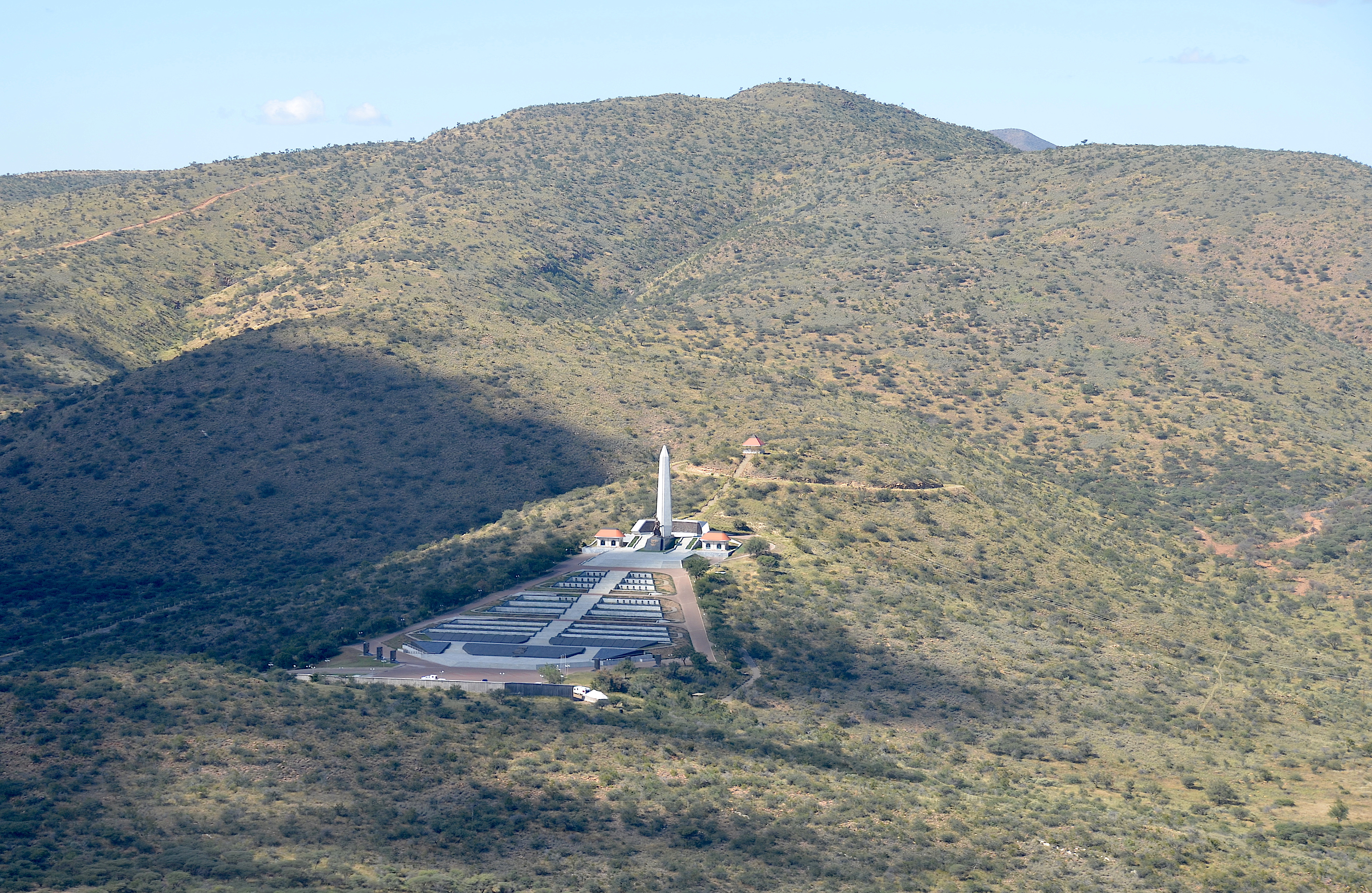 Heroes´Acre Namibia from Bird´s eye view (2017)